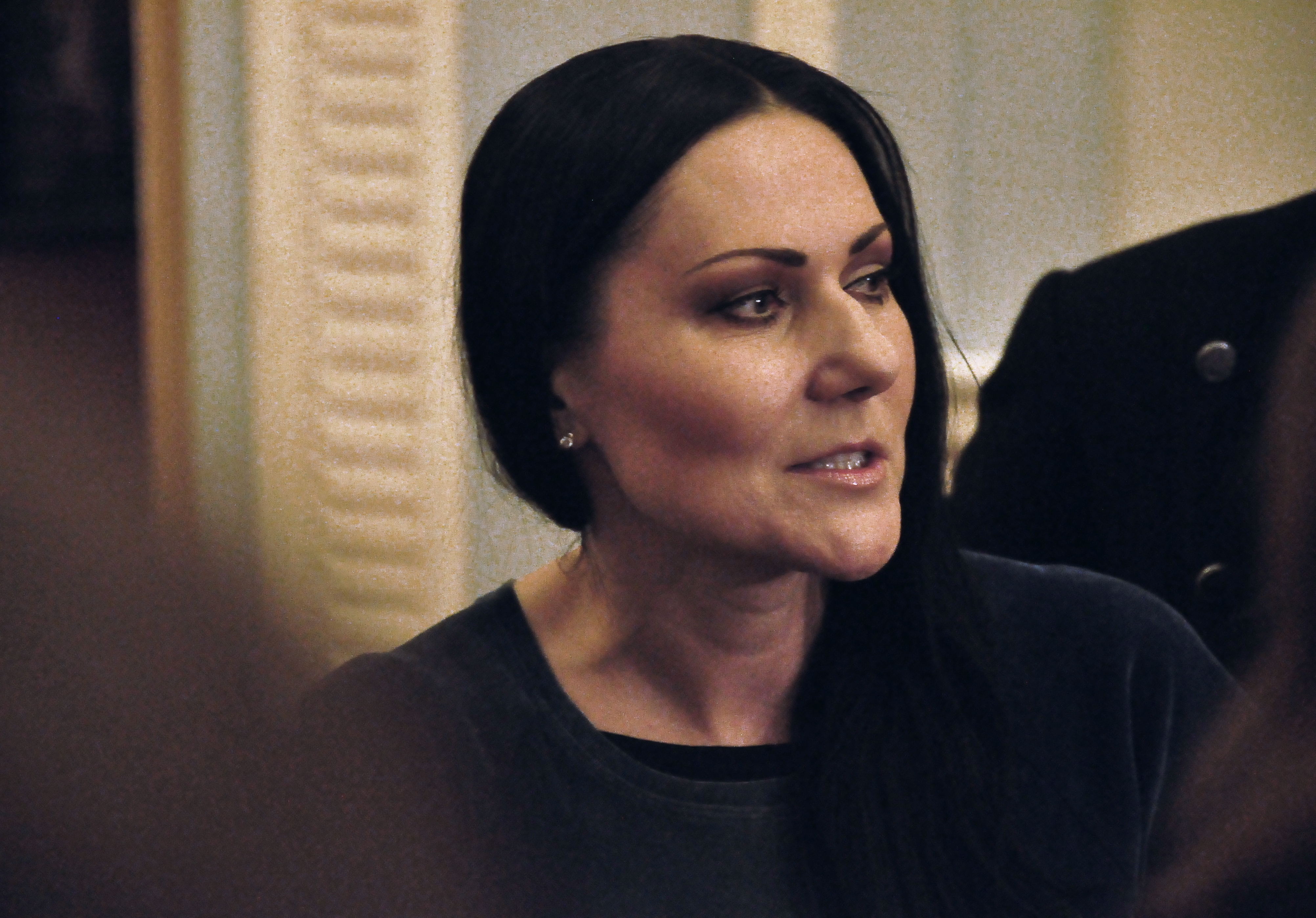 At Moscow E. Vakhtangov Theatre, 2013